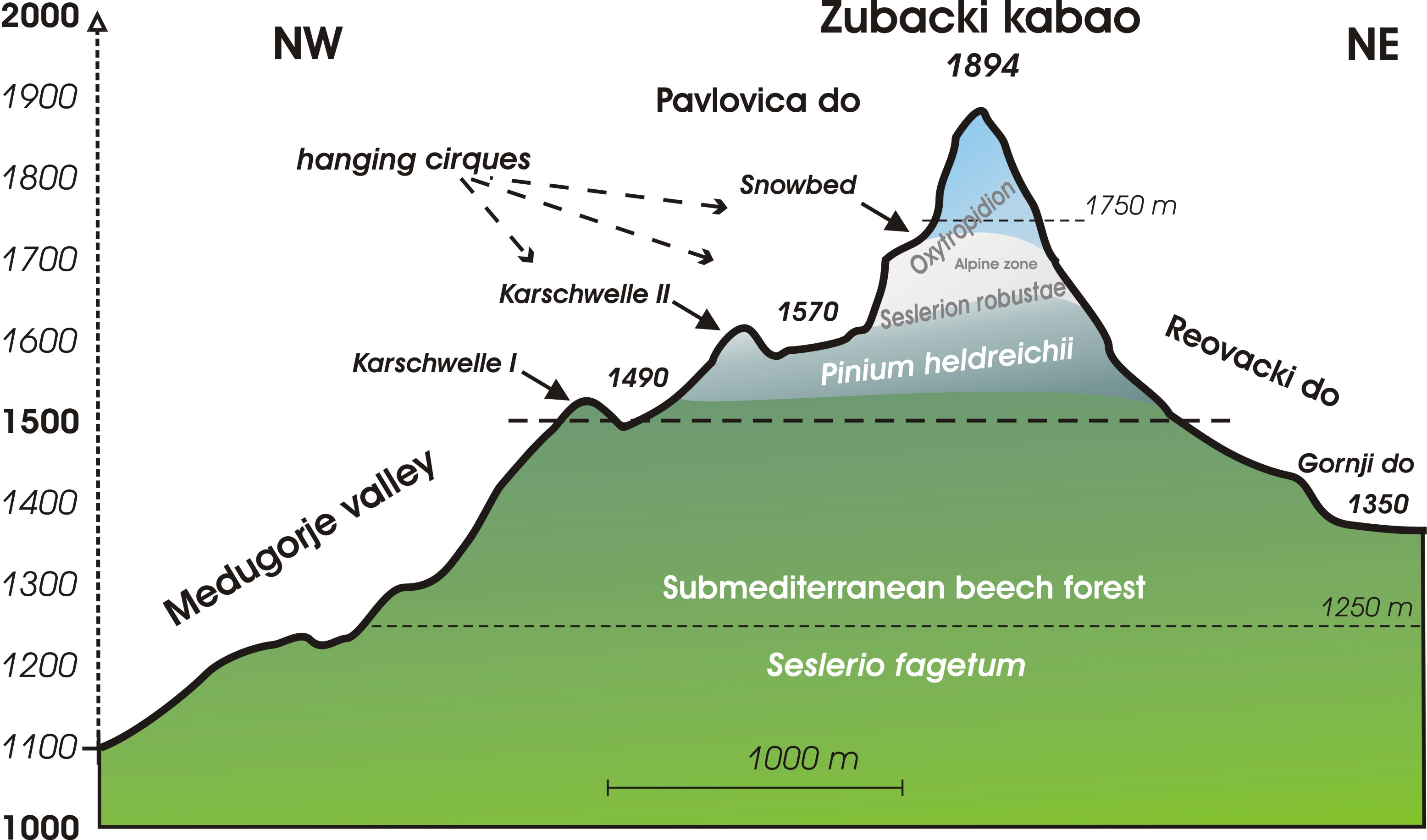 vegetational zonation in the southeastern coastal dinaric mountains (Orjen, Montenegro)